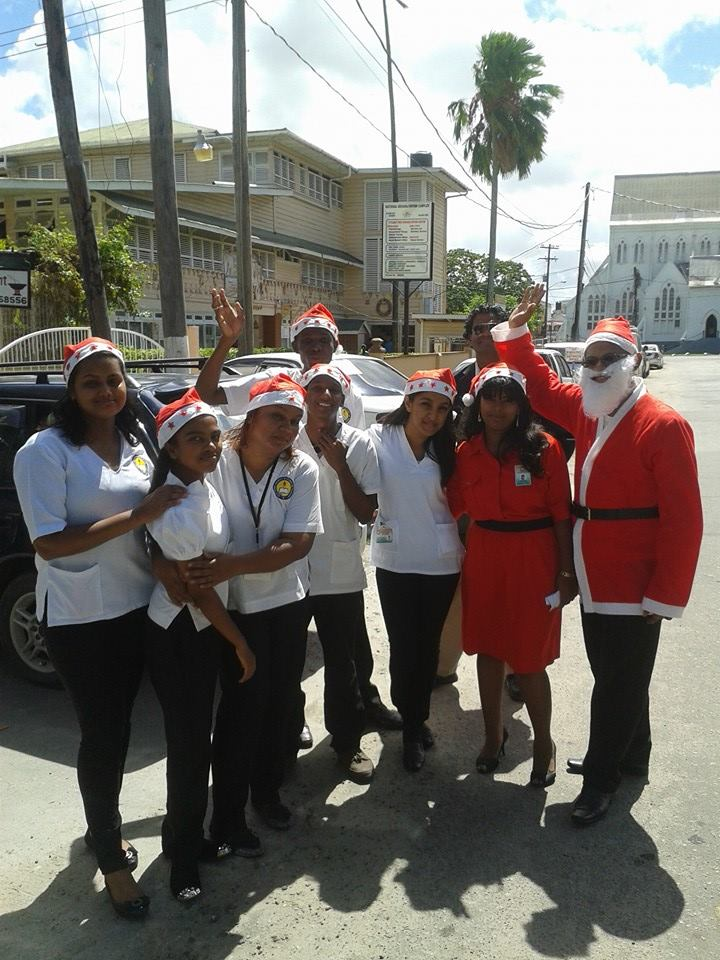 RAJIV GANDHI UNIVERSITY OF SCIENCE AND TECHNOLOGY 135 Sheriff street, Georgetown, Guyana, South America.